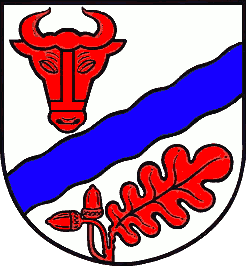 Coat of arms of the municipality Lohbarbek in Schleswig-Holstein, Germany.